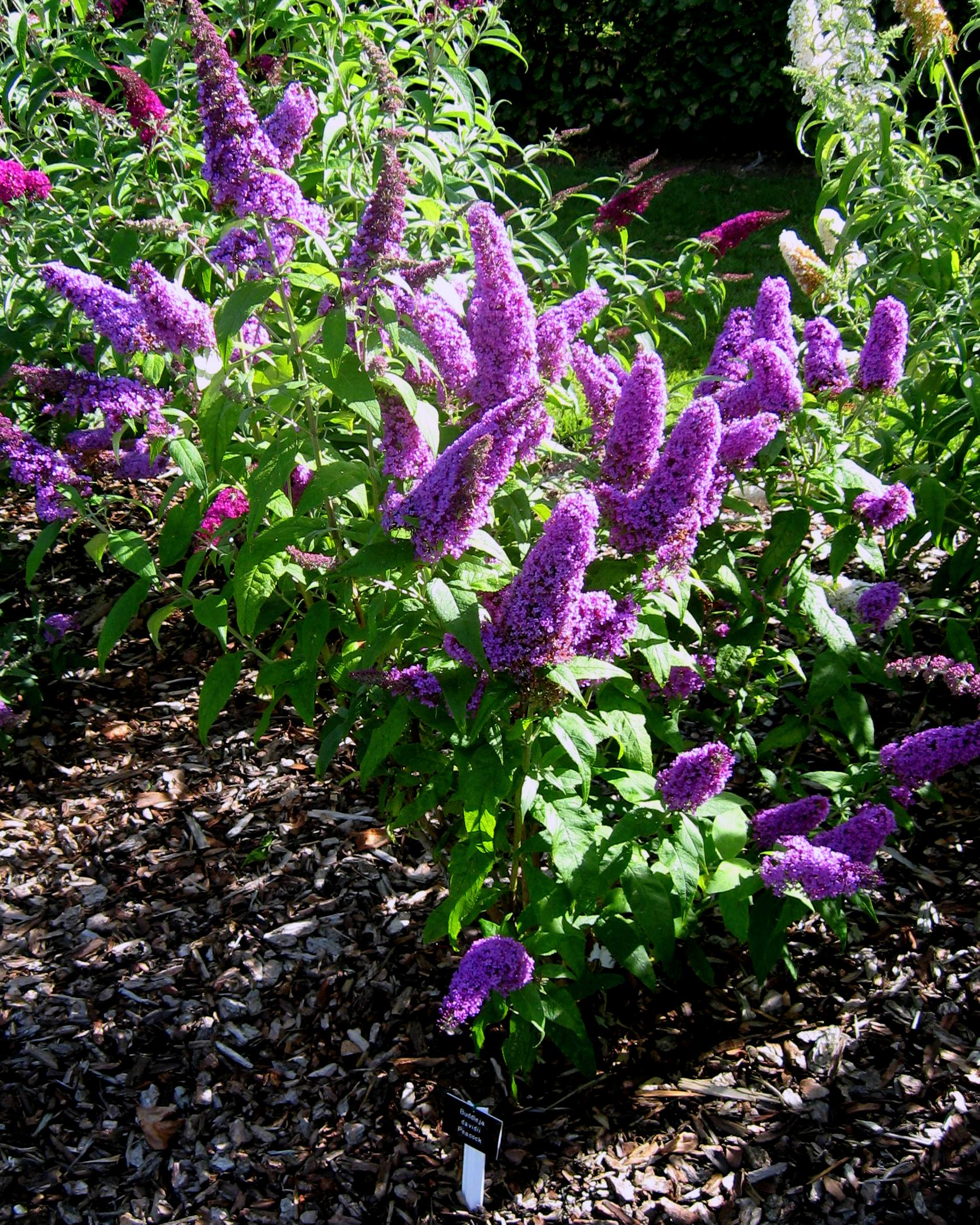 Photo of Buddleja cultivar 'Peacock' taken at Longstock Park, UK, August 2012